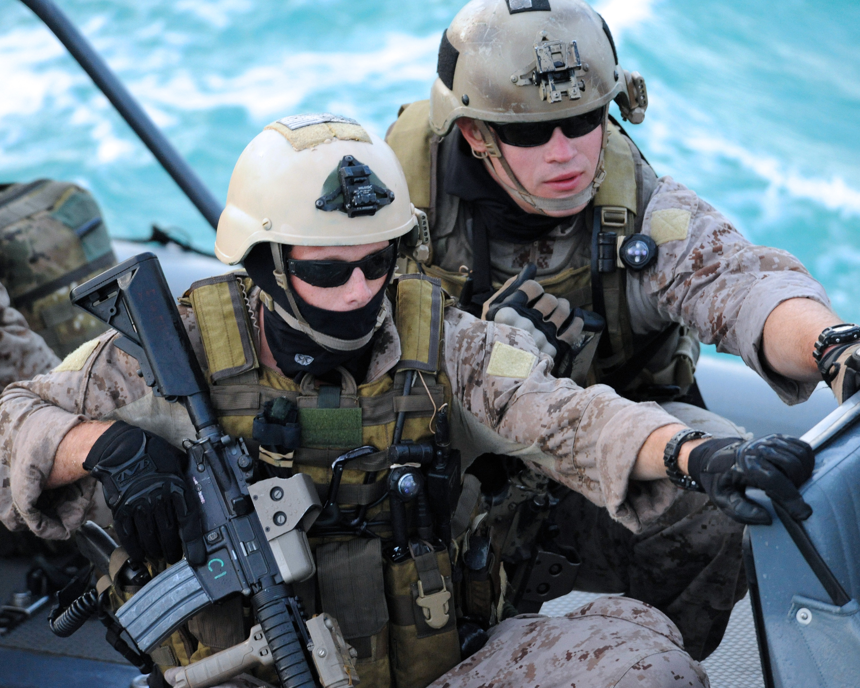 Key West, Fla. (April 27, 2009) –SEALs from a West-coast based SEAL team board a yacht for a scene in the upcoming Bandito Brothers production tentatively titled “I Am That Man”, due in theaters in 2010.